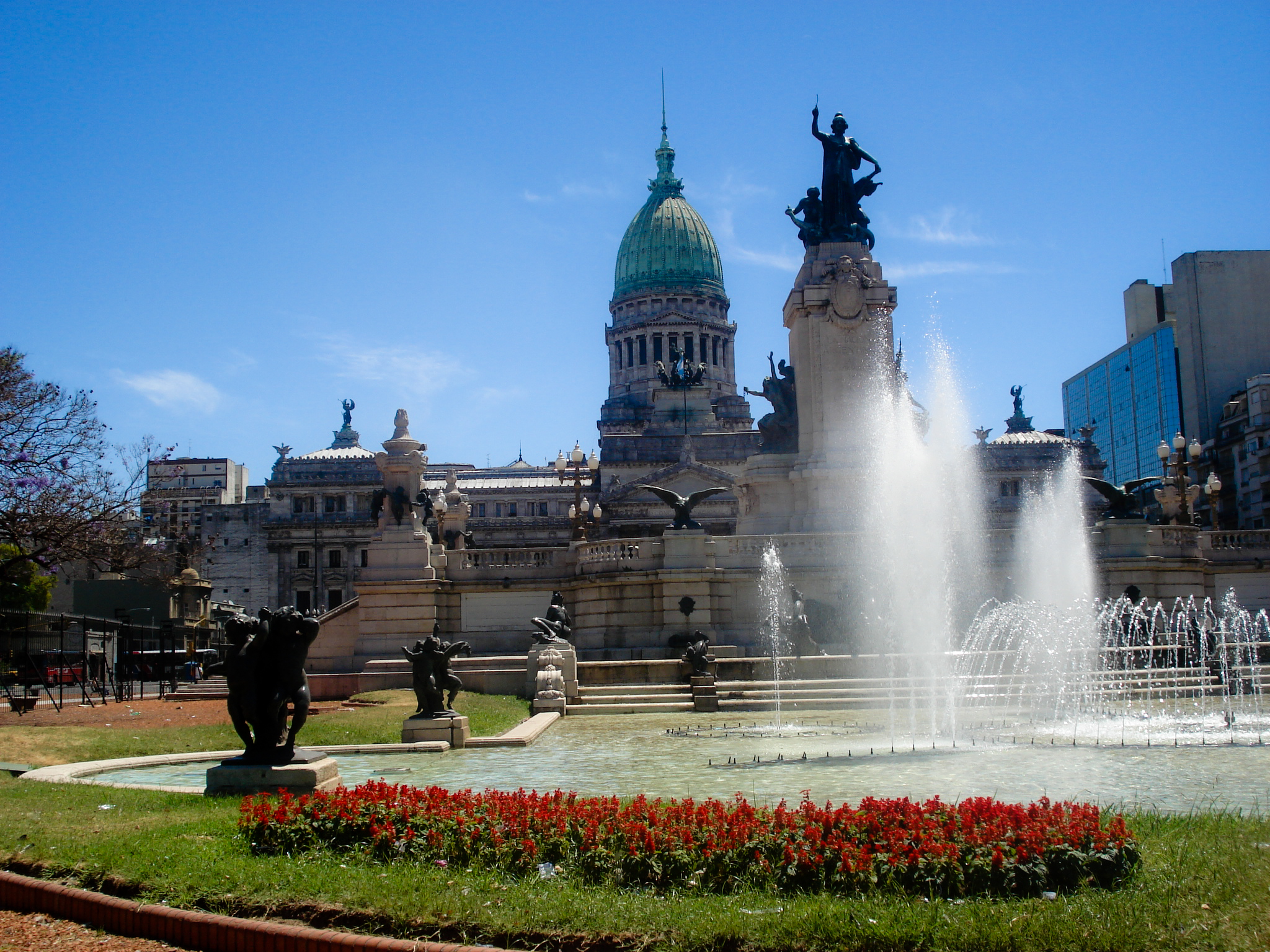 Congress and monument, Buenos Aires.